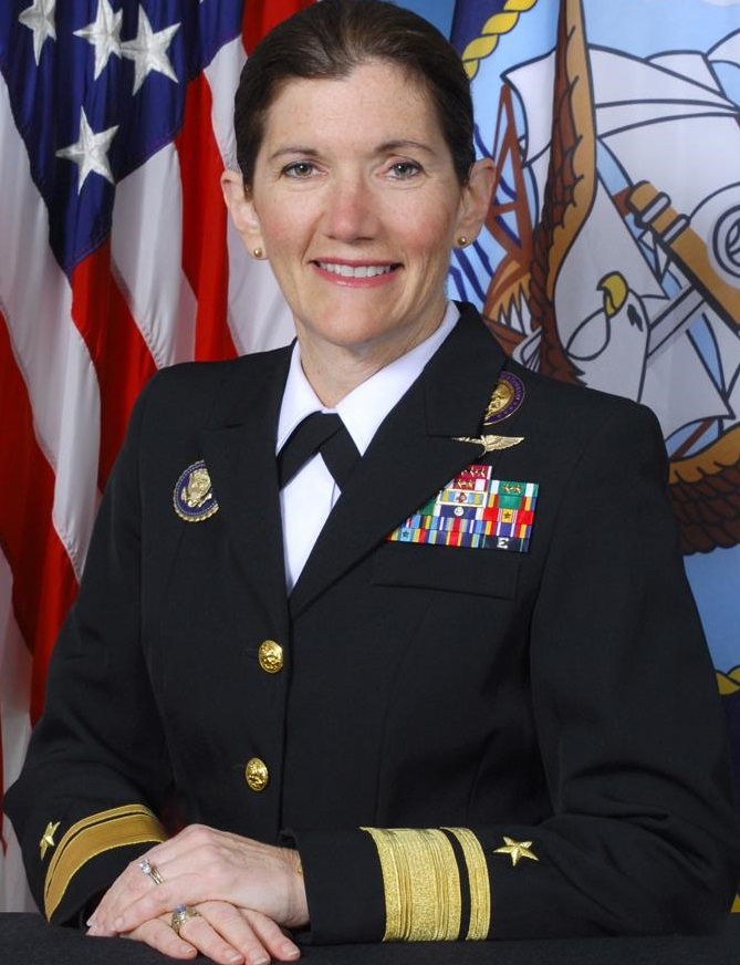 Rear Admiral (upper half) Margaret DeLuca "Peg" Klein Chief of Staff, U. S. Cyber Command